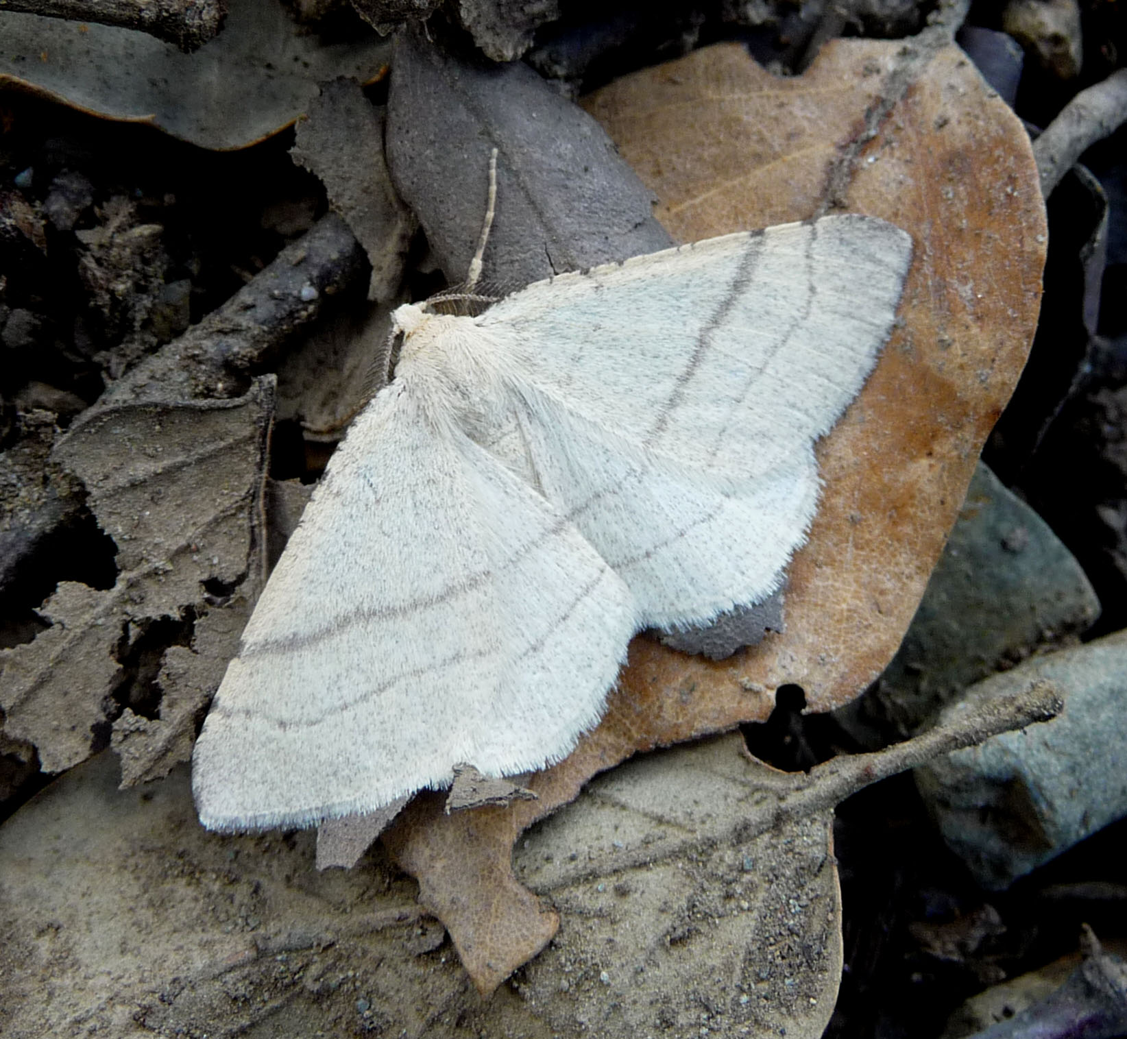 Adactylotis gesticularia. Geometridae